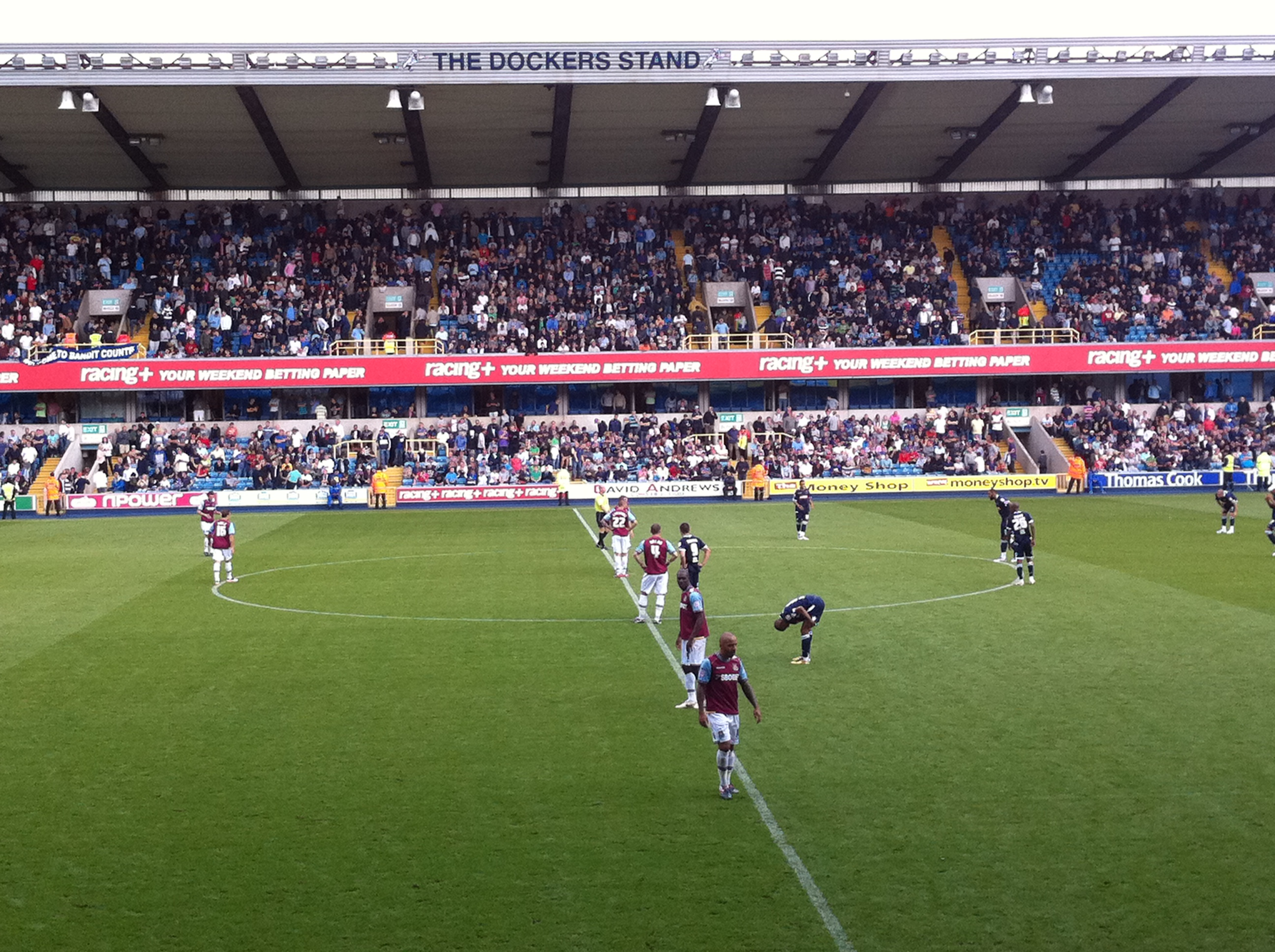 Millwall and West Ham United prepare to kick-off, 17 September 2011.